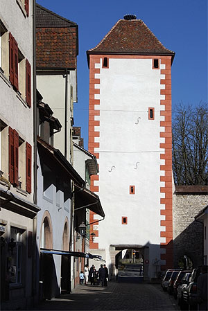 The "Storchennestturm" or "Kupferturm" in Rheinfelden, Switzerland